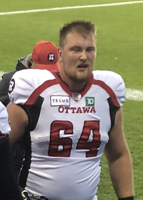 Evan Johnson, offensive lineman for the Ottawa Redblacks.